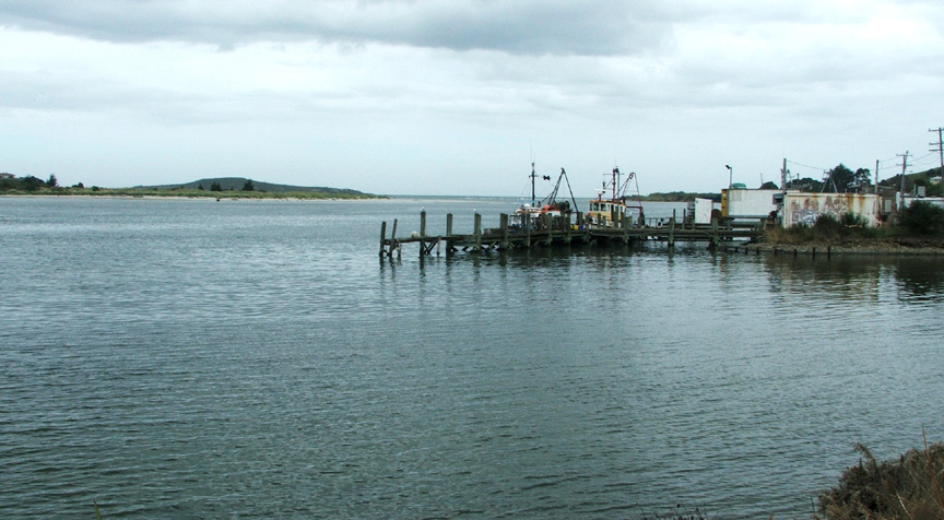 Taieri Mouth, New Zealand. Photographed in January 2006.